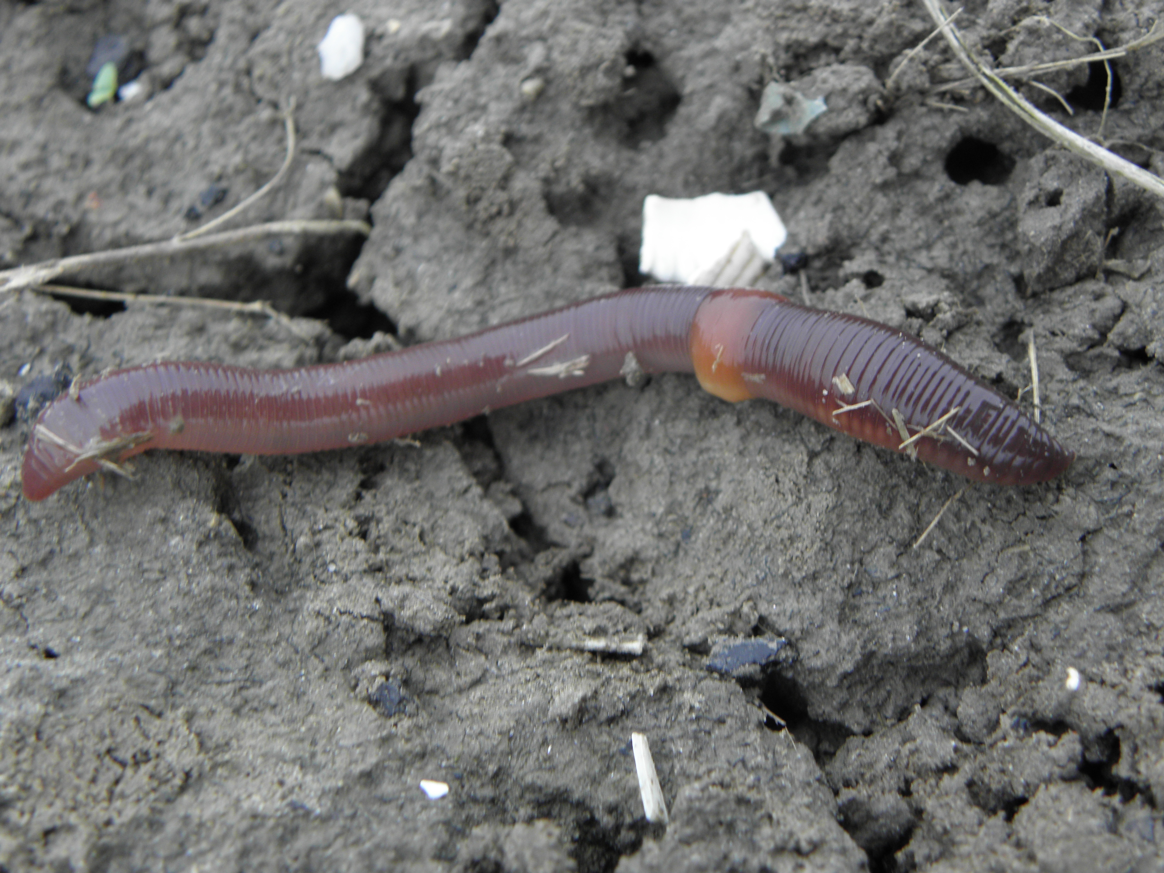 Earthworm